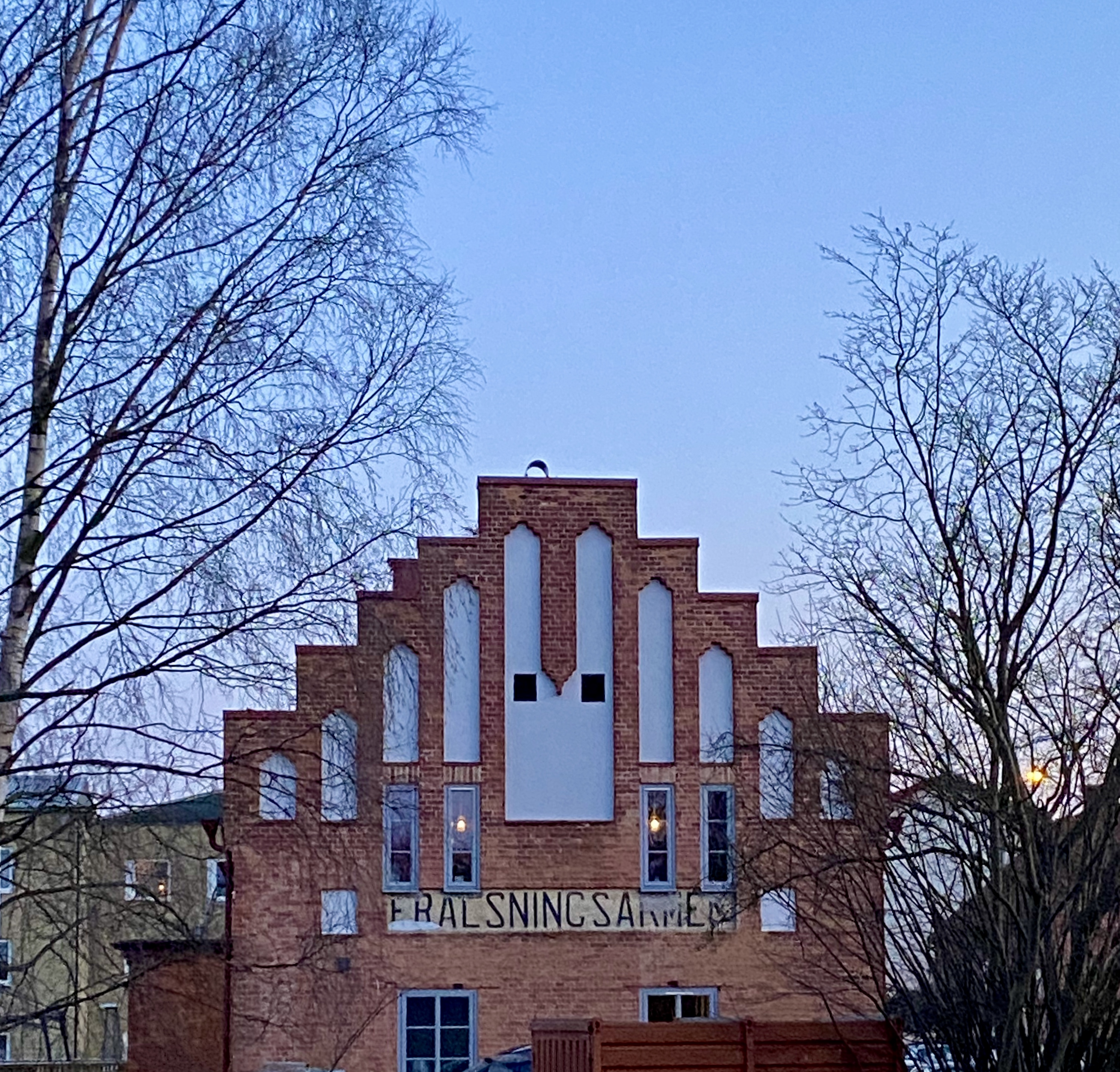 The newly renovated north-eastern fasad of the old Salvation Army church in Sölvesborg city